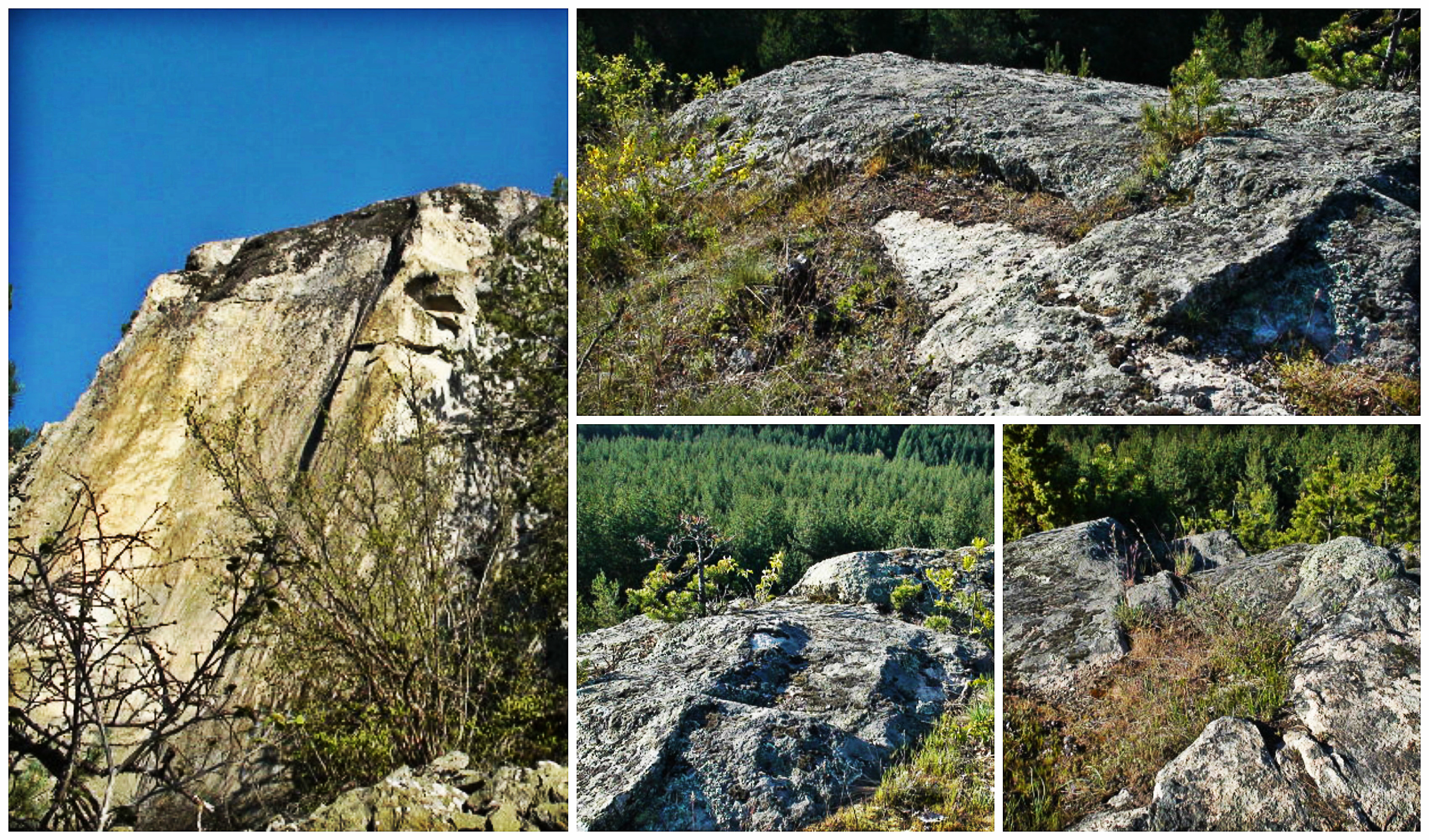 Golema_Garvanitza_Solar_Sanctuary_Beraintzi_BG_2